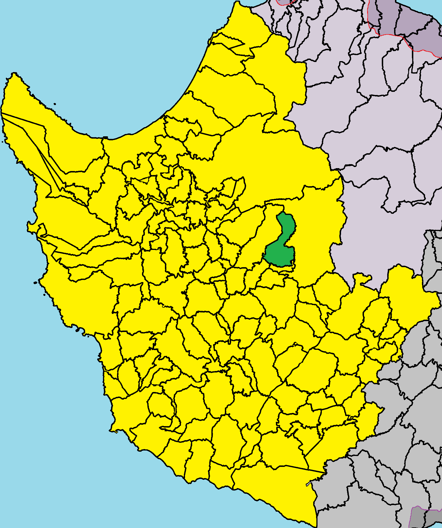 Asprogia in Paphos District.